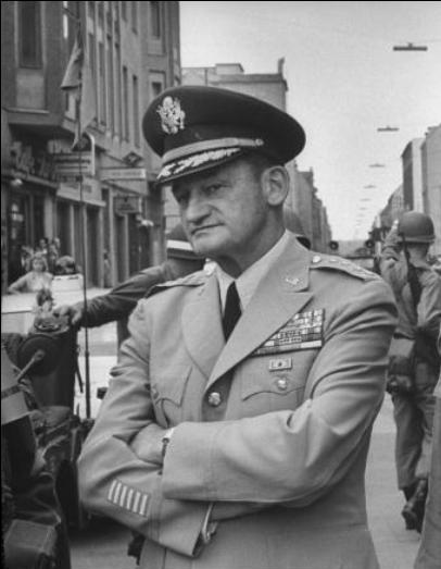 Charles Day Palmer (February 20, 1902 – June 7, 1999) was a United States Army four star general who served as Deputy Commander in Chief, United States European Command (DCINCEUR) from 1959 to 1962. His brother, Williston B. Palmer, was also a four star general, and his grandfather, William Edward Birkhimer, was a general and Medal of Honor recipient.